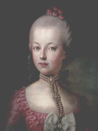 Archduchess Maria Antonia of Austria, the later Queen Marie Antoinette of France, at the age of 16